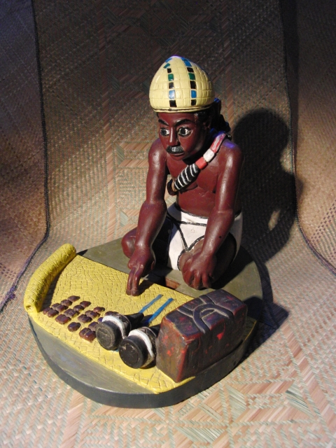 Ombiasa